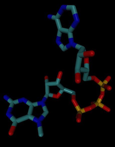 molecule of 5'mRNA cap analogue in conformation occuring after bound by eIF-4E translation factor